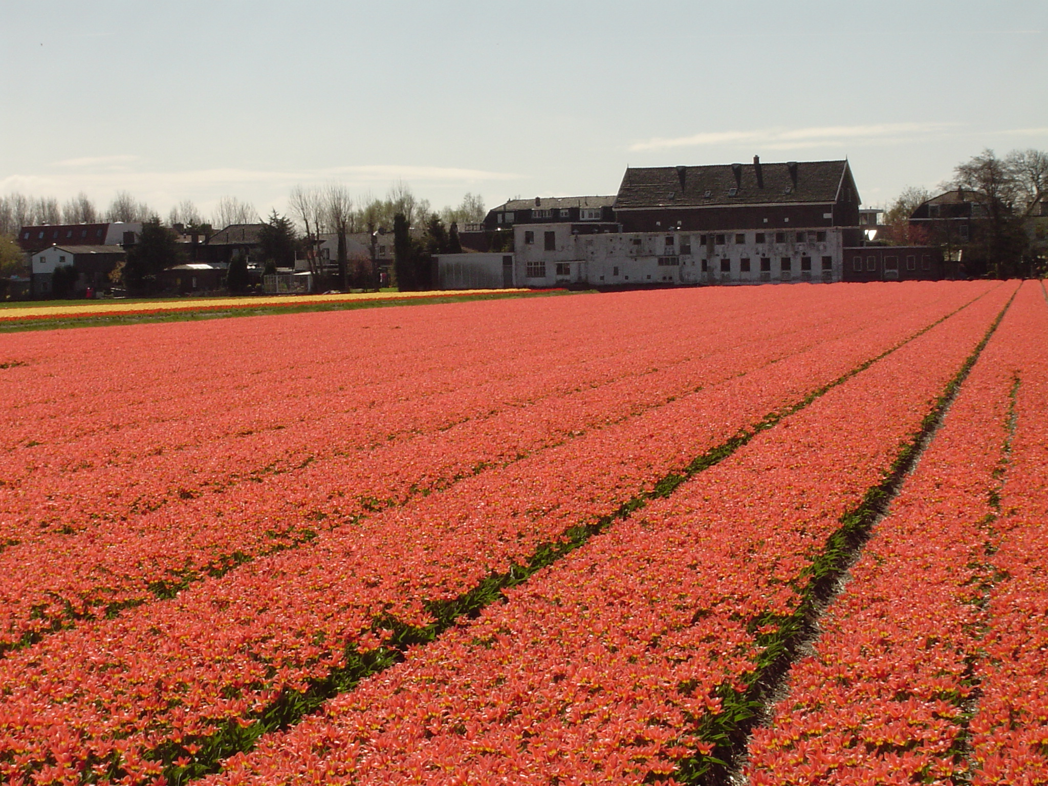 Bollenveld (field with tulips) in Hillegom, the Netherlands.